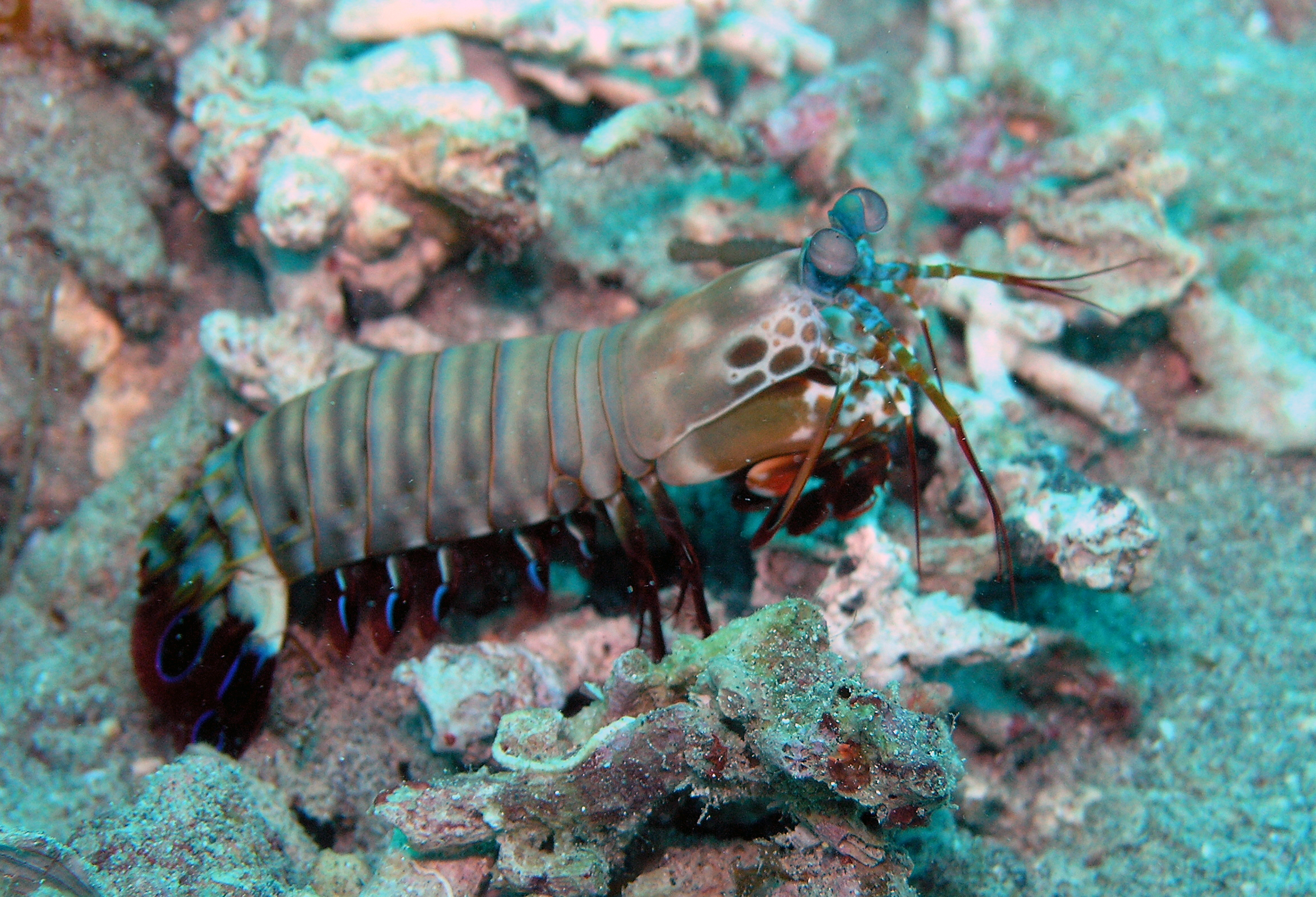 Picture of peacock mantis shrimp. Taken at Tasik Ria house reef. Manado, Indonesia.